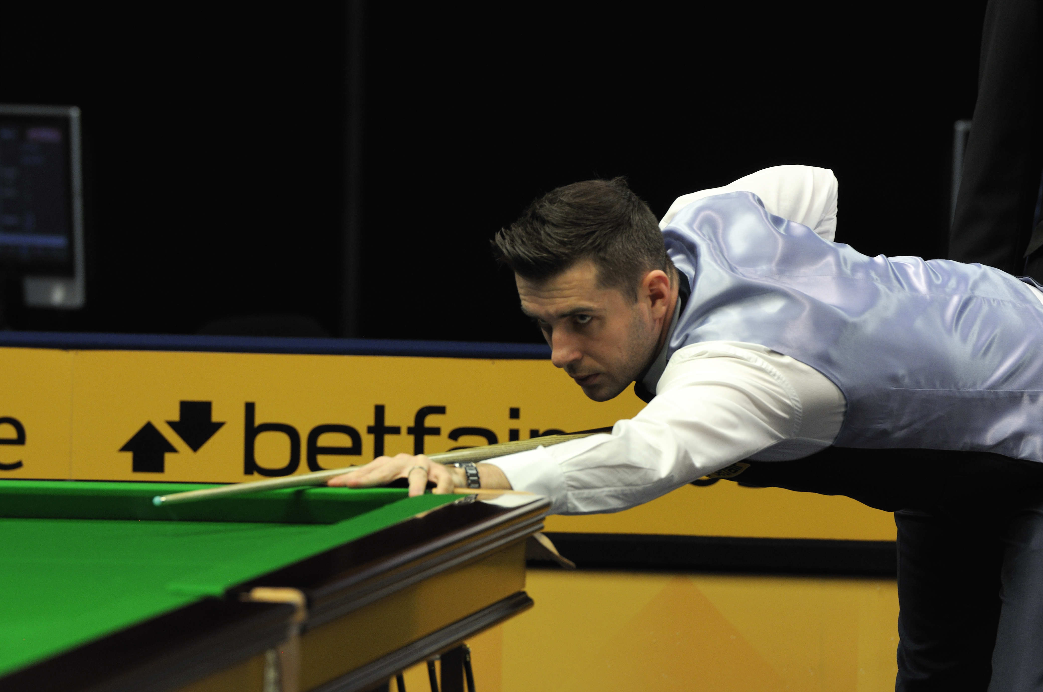 Picture taken in Berlin during the Snooker German Masters in 2013. Mark Selby.